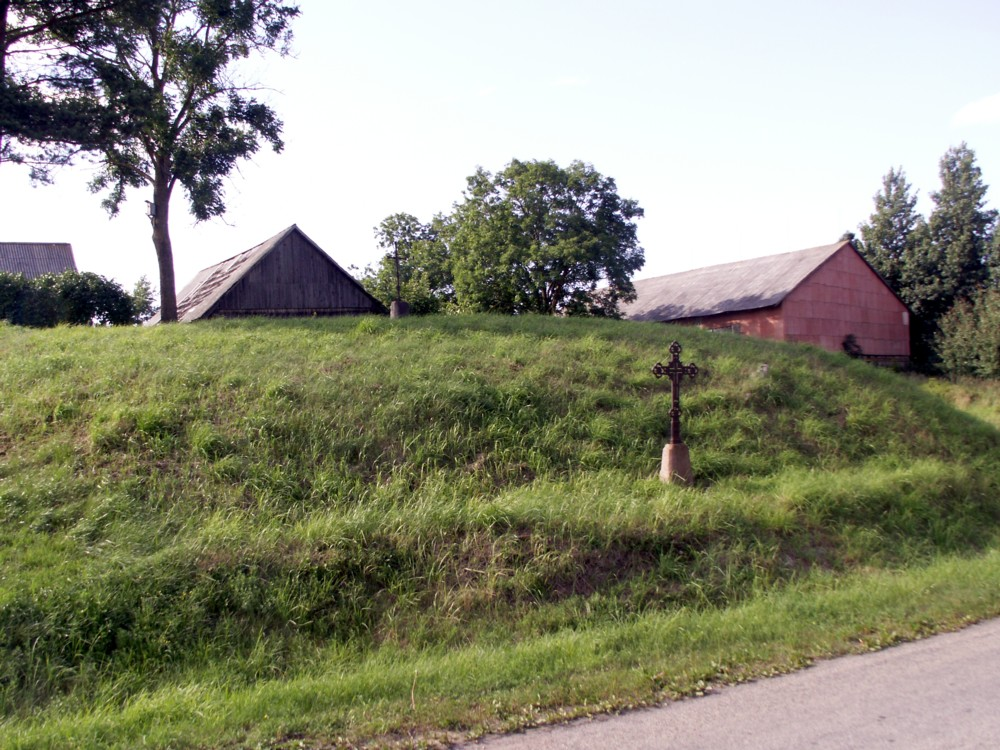 Giedriai old cemetery, Šiauliai district, Lithuania